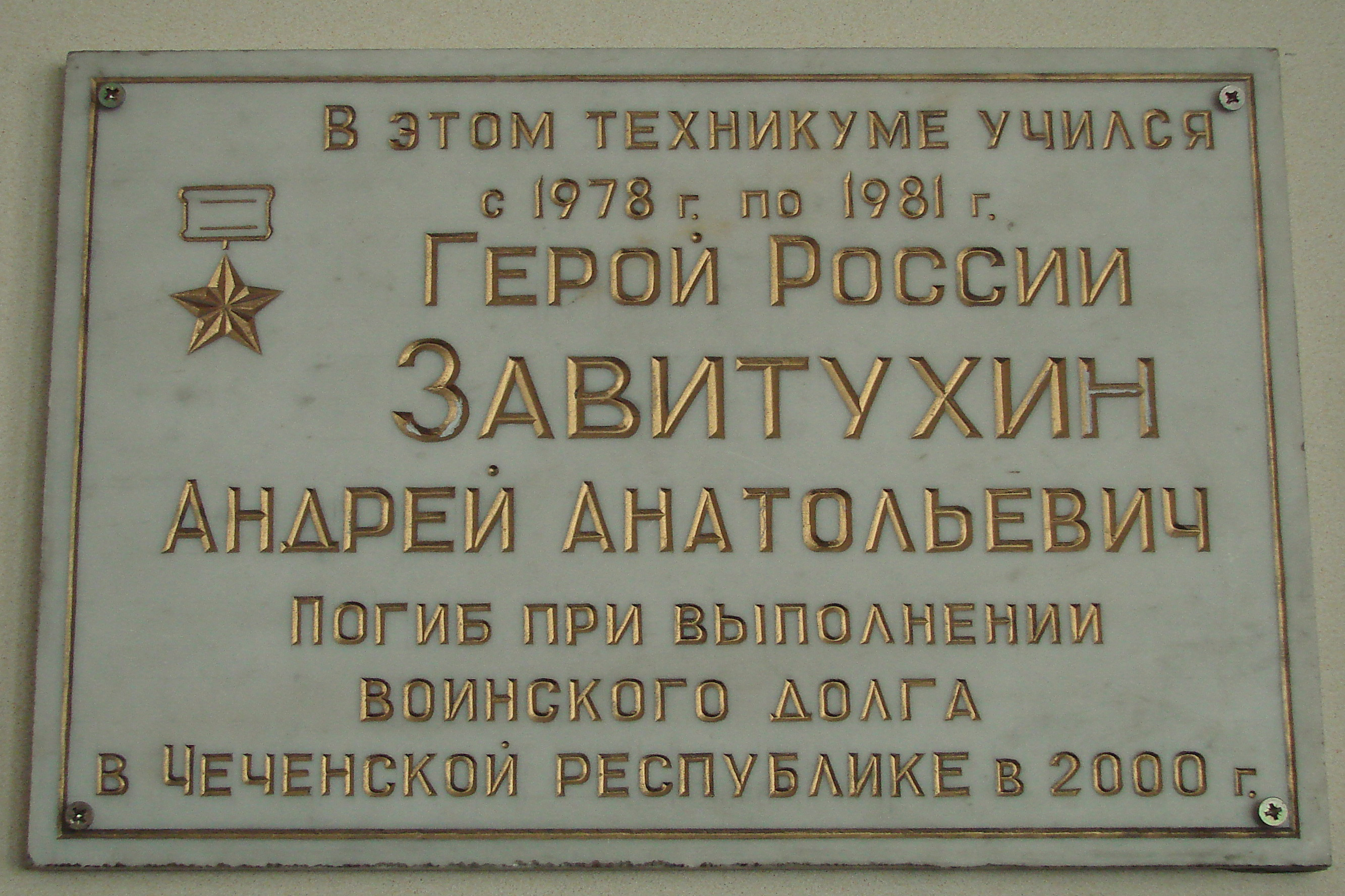 Russia, Vologda, Vologda Rail College, memorial plaque in honor of Hero of Russia - Zavituhin Andrey